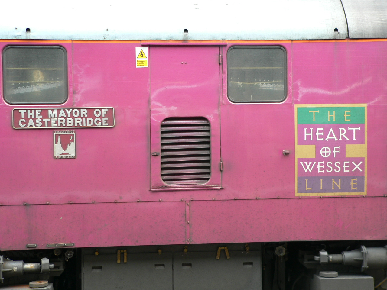 A close up of the nameplate and The Heart of Wessex Line branding on Class 31 diesel locomotive 31601 "The Mayor of Casterbridge". Wessex Trains Heart of Wessex services from Bristol to Weymouth call at Dorchester, the Casterbridge of Thomas Hardy novels.